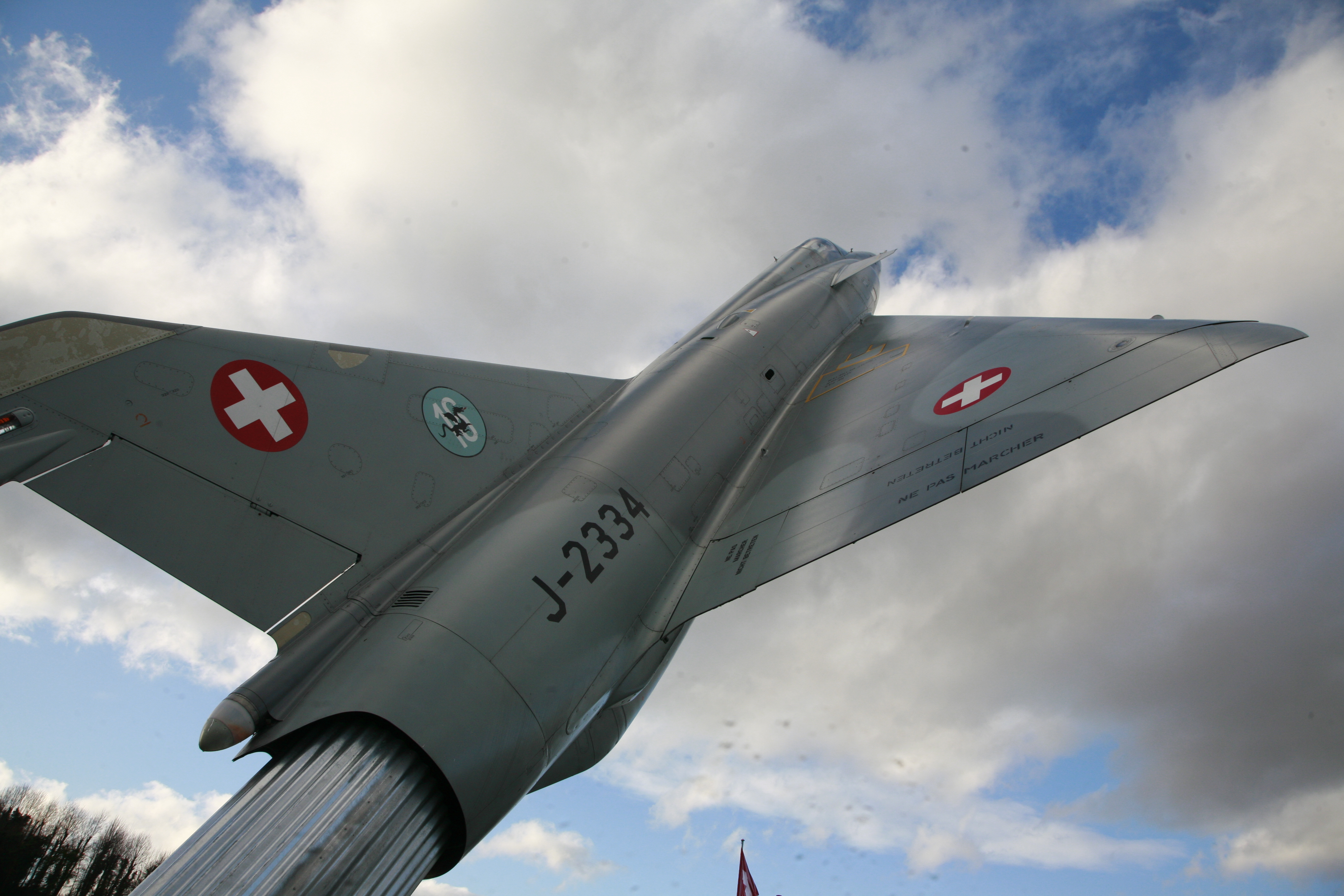 Dassault Mirage III of the Swiss Air Force, on display at Payerne Airbase.